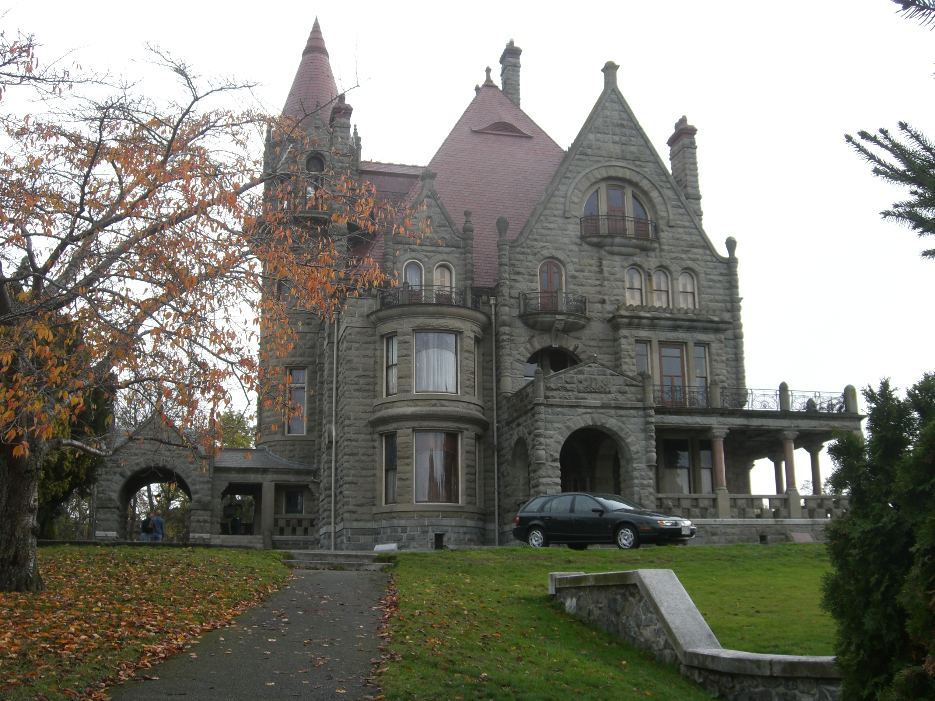 Exterior of Craigdarroch (Dunsmuir) Castle, Victoria BC.